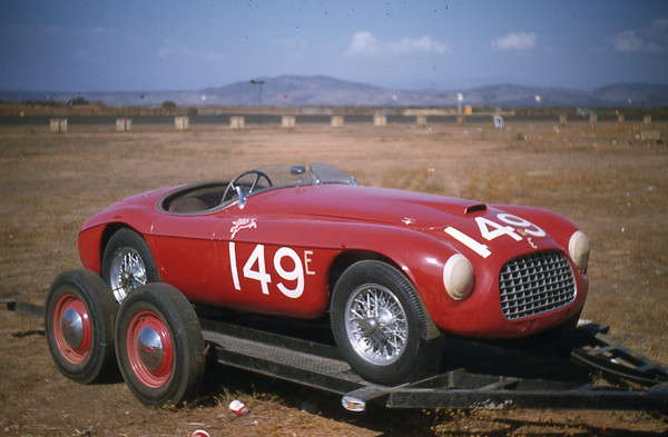 1948 Ferrari 166 MM Touring Barchetta s/n 0004M at San Diego Montgomery Field on 21–22 July 1956, where it was raced by Bob Drake, as part of the road races during the city's Fiesta Del Pacifico festival.[1][2]